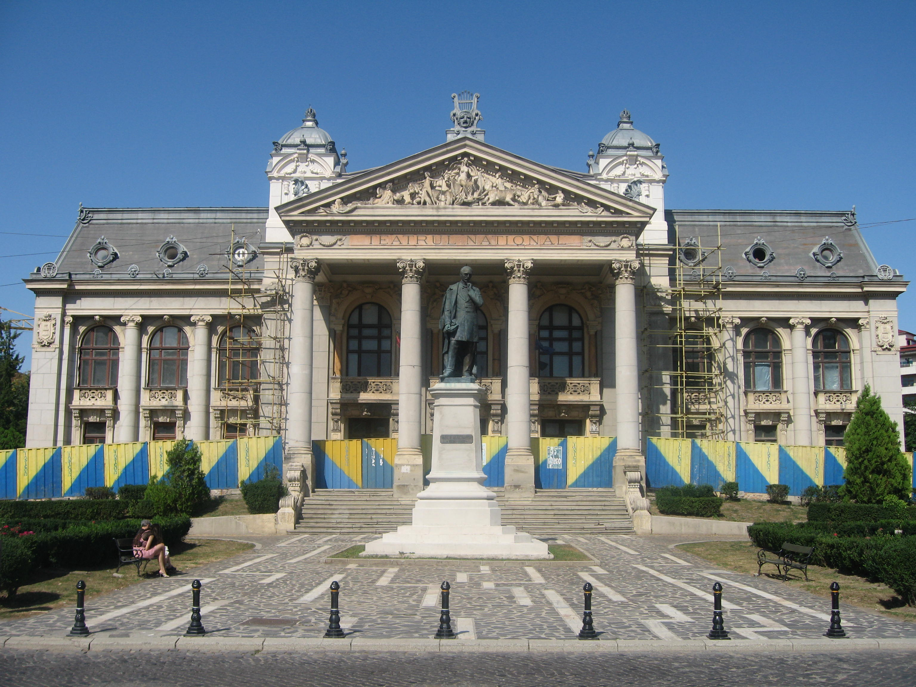 Statuia lui Vasile Alecsandri din Iaşi